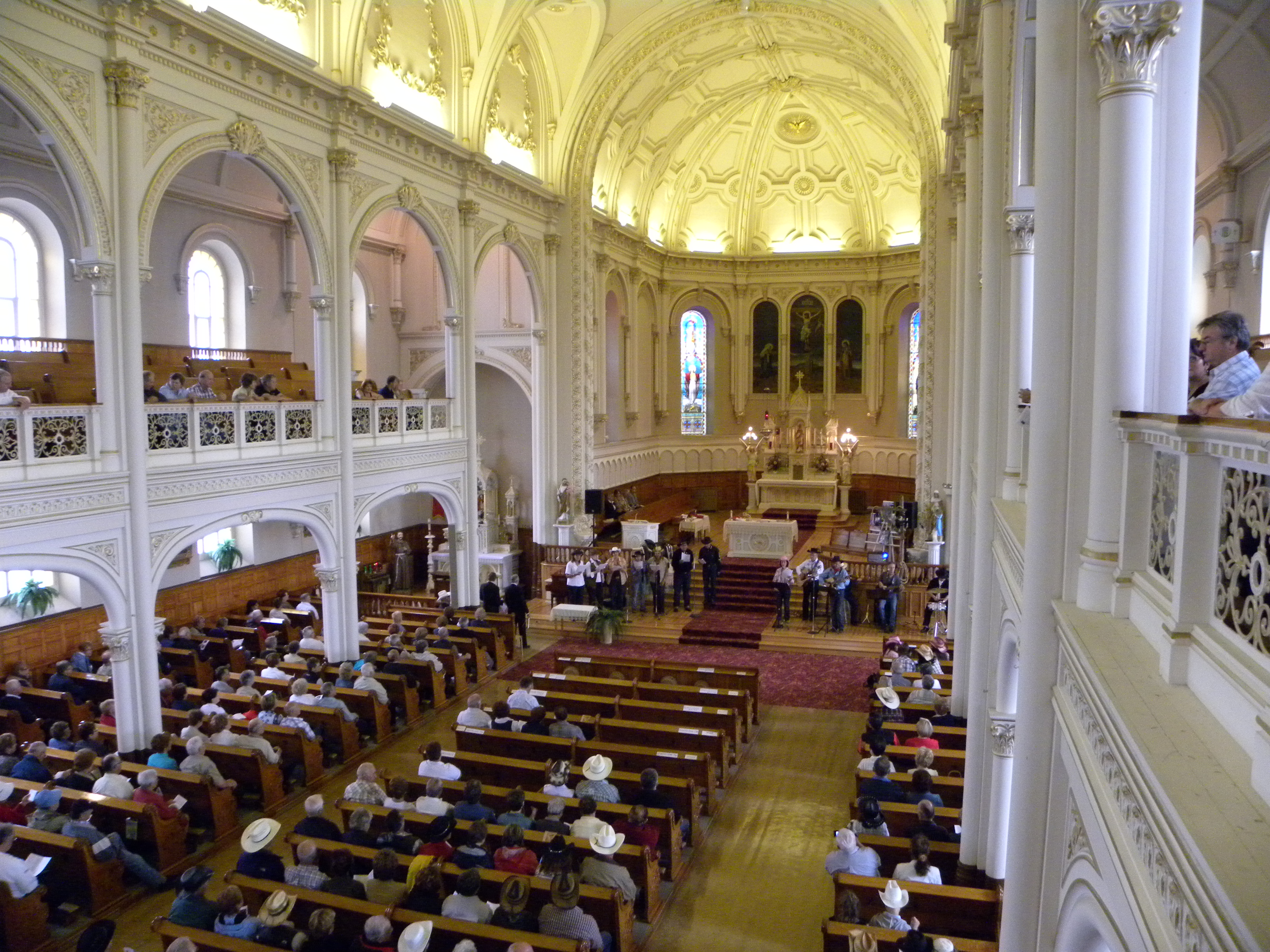 Interior view of Saint-Victor church - Western mass 2009